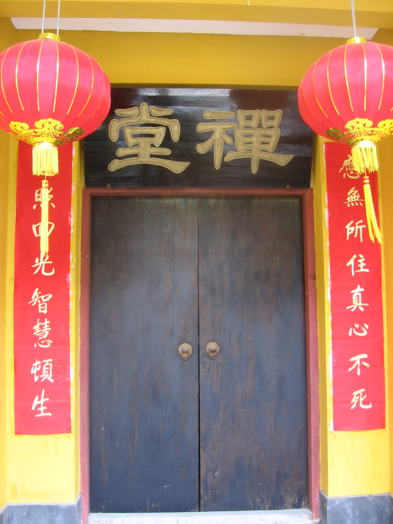 The zendo (meditation hall) at Yunmen Temple near Shaoguan, Guangdong, China. 公有领域